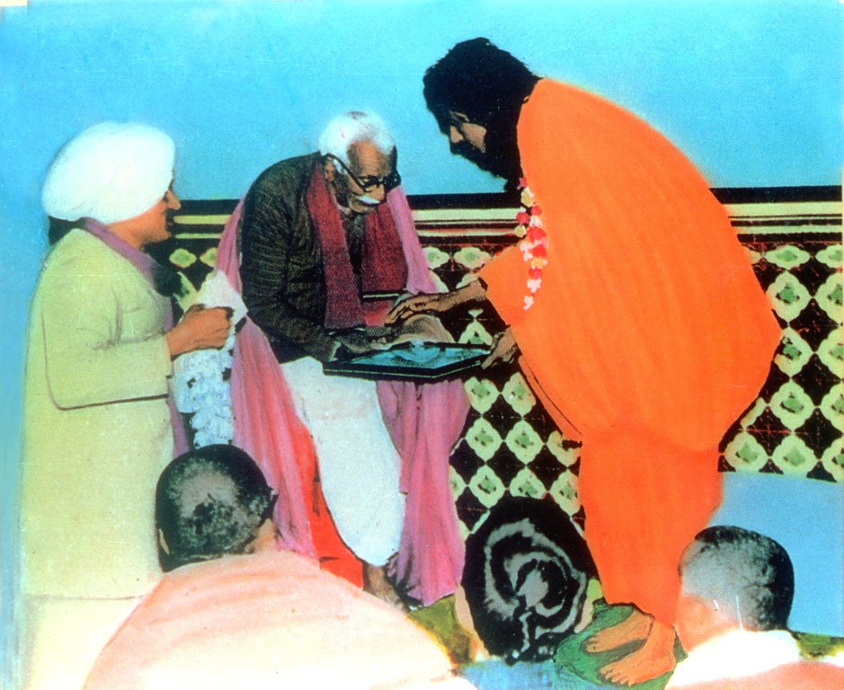 Kriplau Ji Maharaj Receiving Award